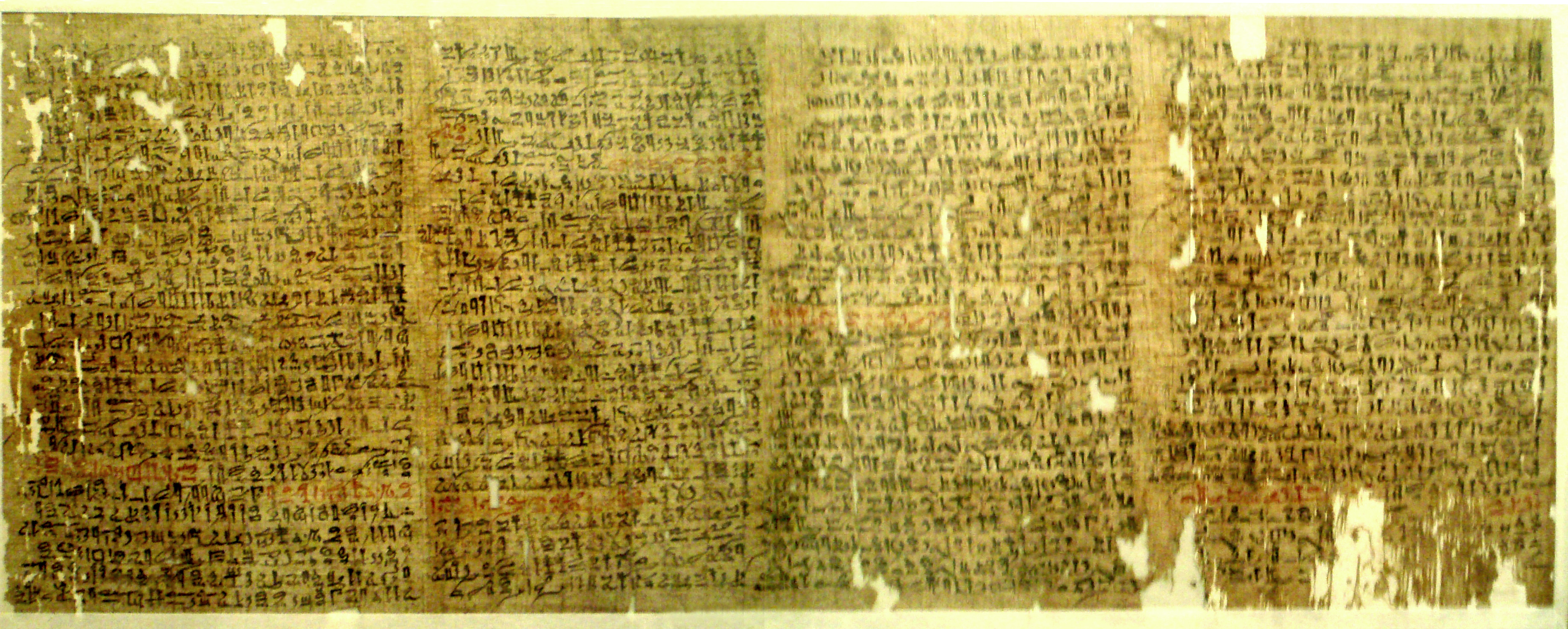 Merged photos depicting a copy of the Ancient Egyptian papyrus commonly known as "The Westcar Papyrus", sometimes also known by the longer name "Three Tales of Wonder from the Court of King Khufu", written in hieratic text. Photo(s) taken at the Altes Museum, Berlin, later merged and cropped using PhotoShop. Catalog number: P 3033.